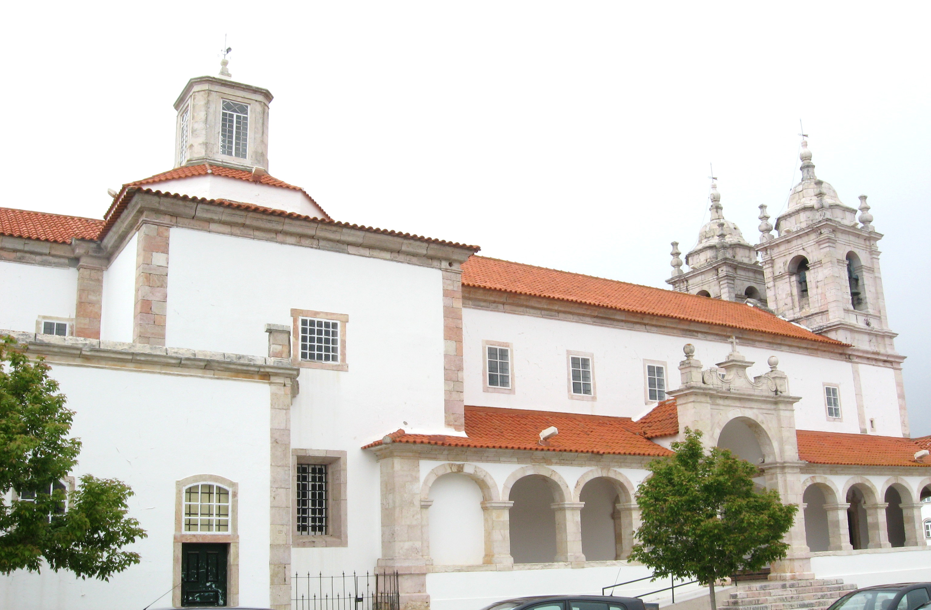 Nazaré, Portugal, Sítio, church of Nossa Senhora da Nazaré, south, 14th and 18th century